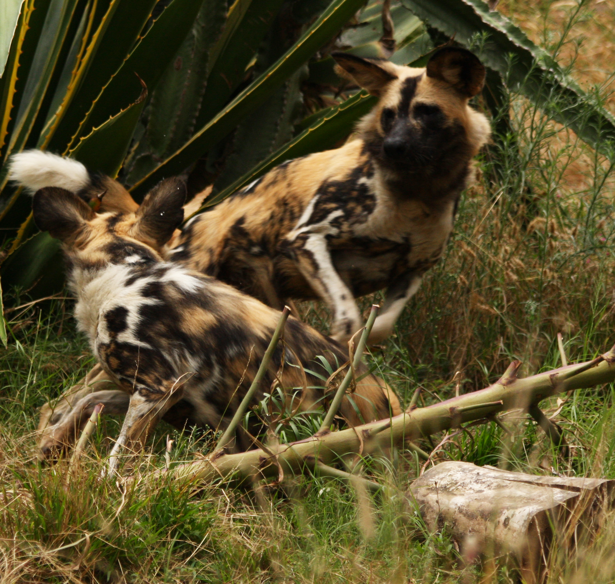 A female African Hunting Dog snaps at a male that was becoming too aggressive.